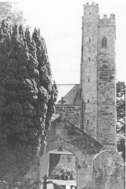 Entrance and tower of St Paul's church, Chacewater The church was built in 1828 when it was consecrated as a Chapel-of- Ease until Chacewater became a separate Parish in 1837.